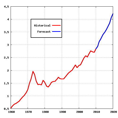 Plot of Canadian oil production from 1960 to 2005 generated using Excel using data from the Canadian National Energy Board (NEB) and the Canadian Association of Petroleum Producers (CAPP)